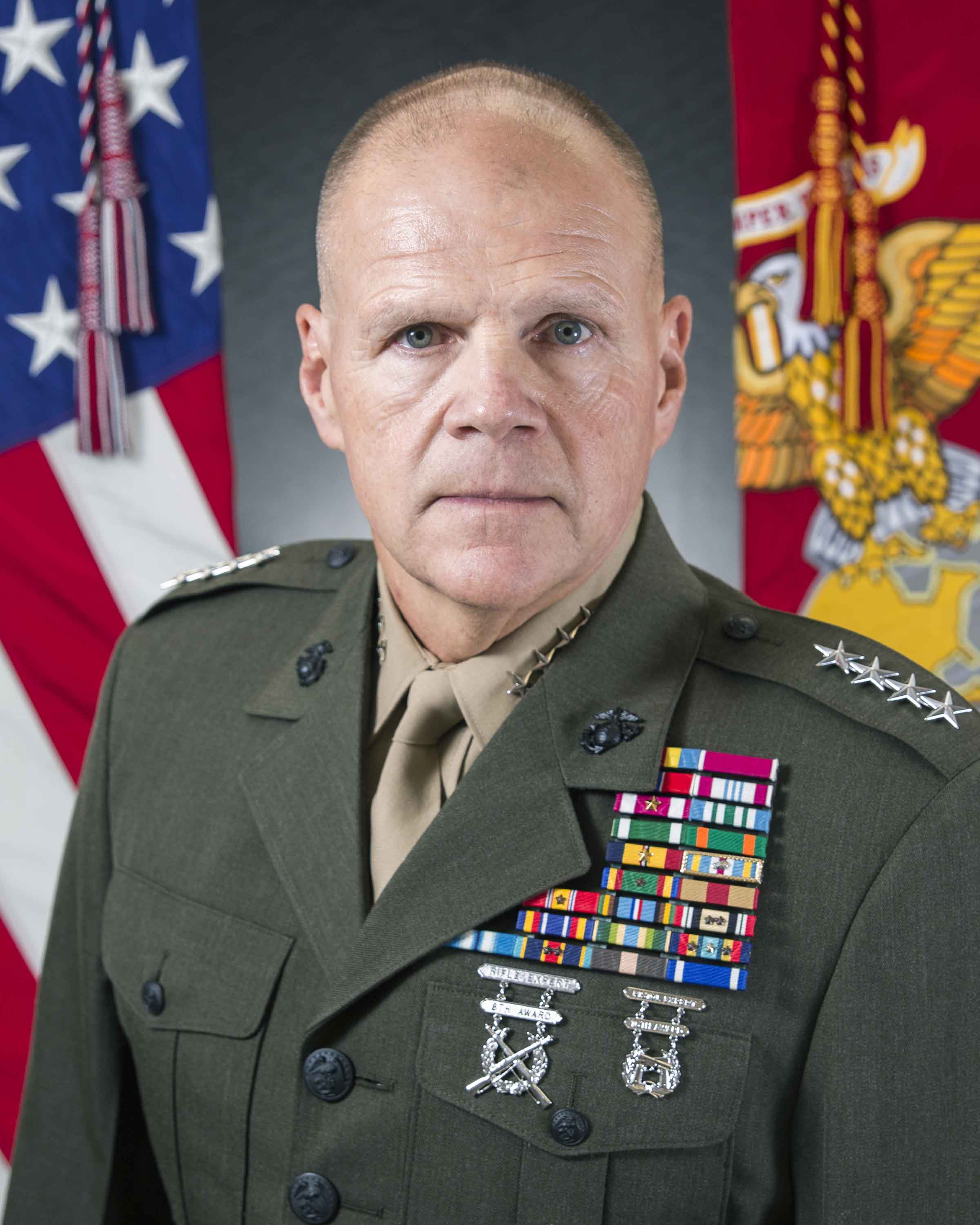 U.S. Marine Gen. Robert B. Neller, poses for a command board photo at Arlington, Va., Aug. 31, 2015. Neller posed for his official command board photo as the 37th Commandant of the Marine Corps. (U.S. Marine Corps photo by Sgt. Gabriela Garcia/Not Released)